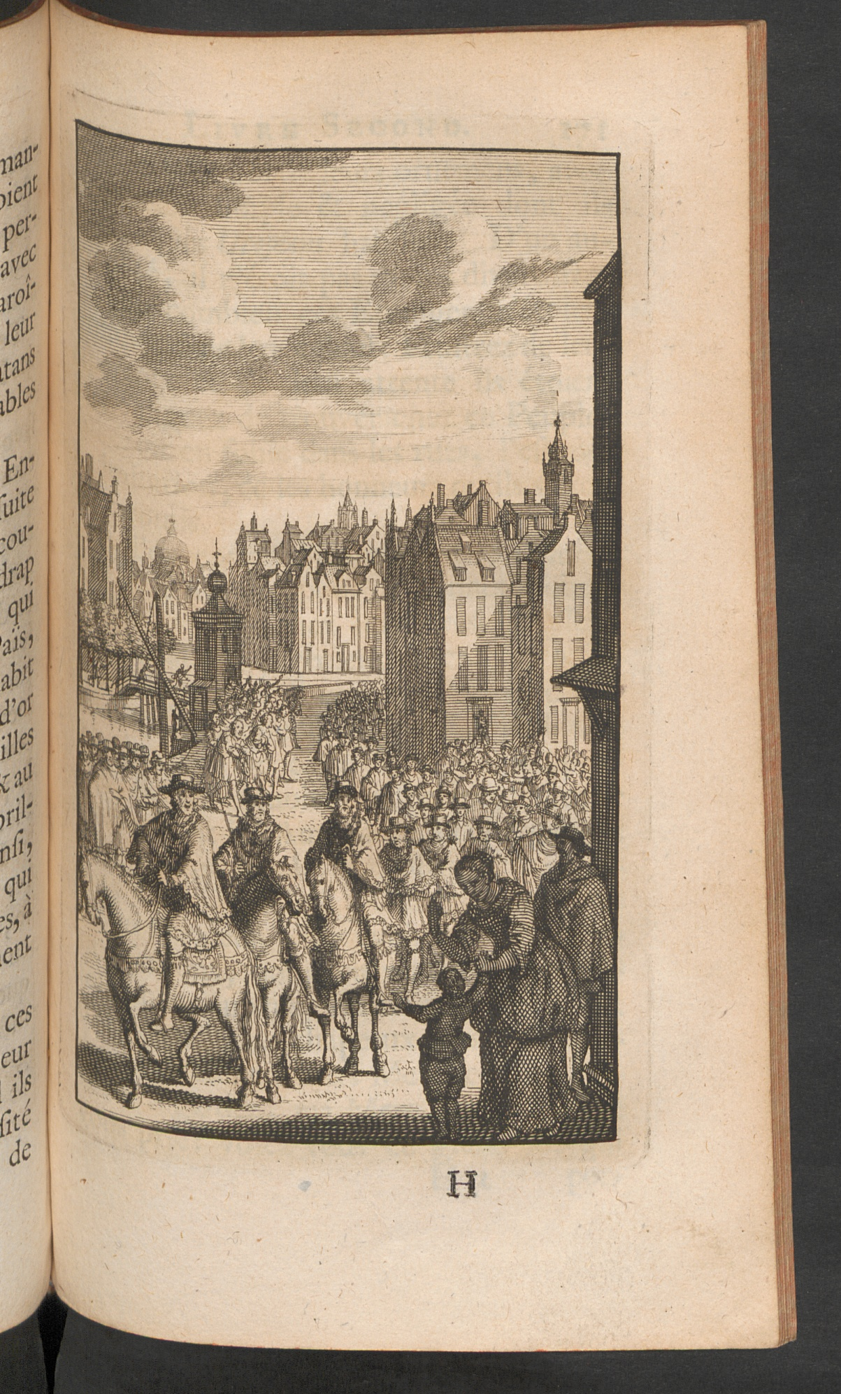 Engraving by François van Bleyswik for Th. More's Utopia translated in french by N. Gueudeville in 1715 (ETH-Bibliothek Zürich). This engraving (page 169) represents the day when Anemolians ambassadors came to visit Utopia. We can see Utopians whispering and mocking these ambassadors for their love of gold and unnecessary riches.